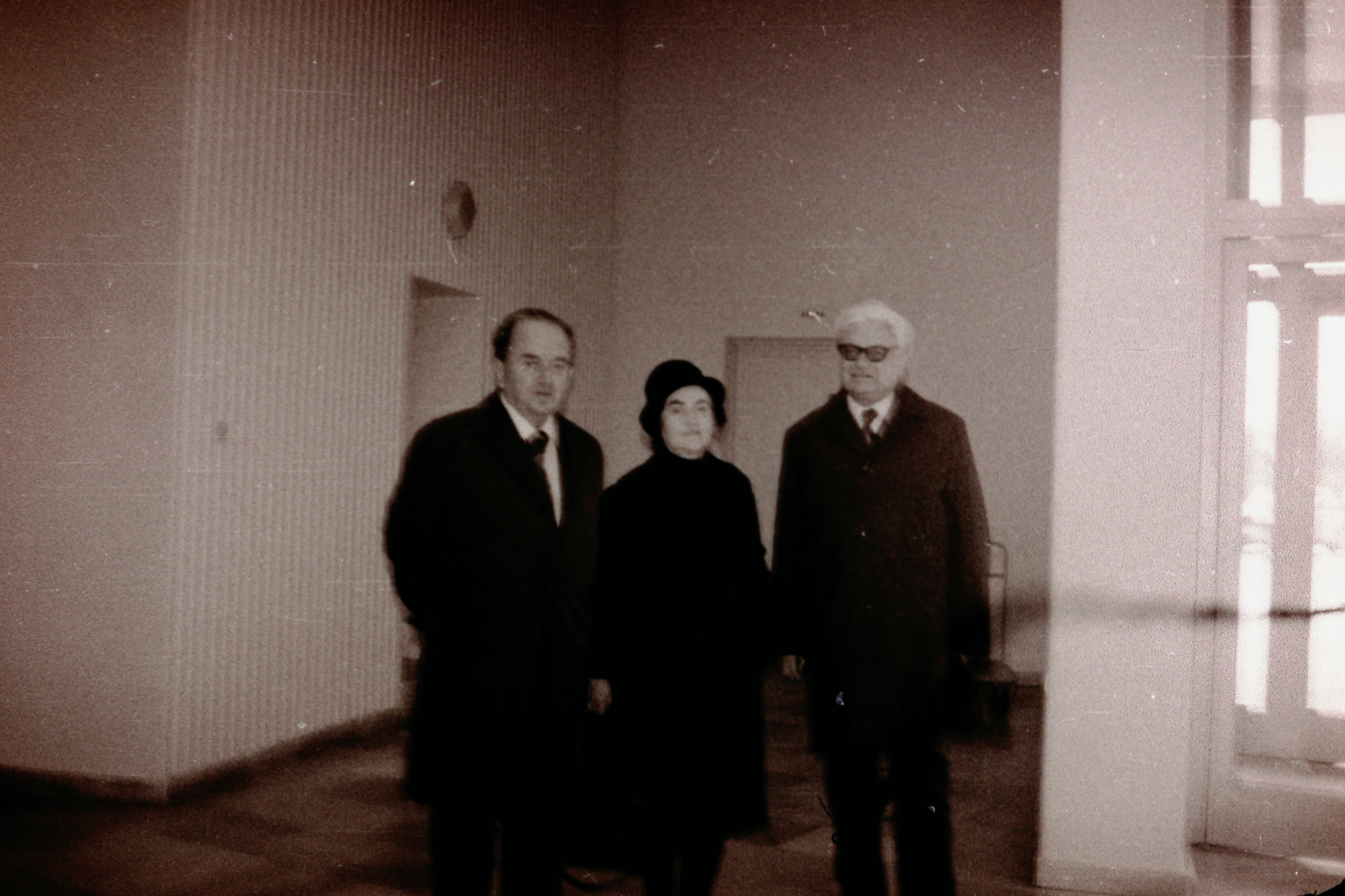 Bulgarian writers Venko Markovski, his wife Filimena and acad. Emil Georgiev